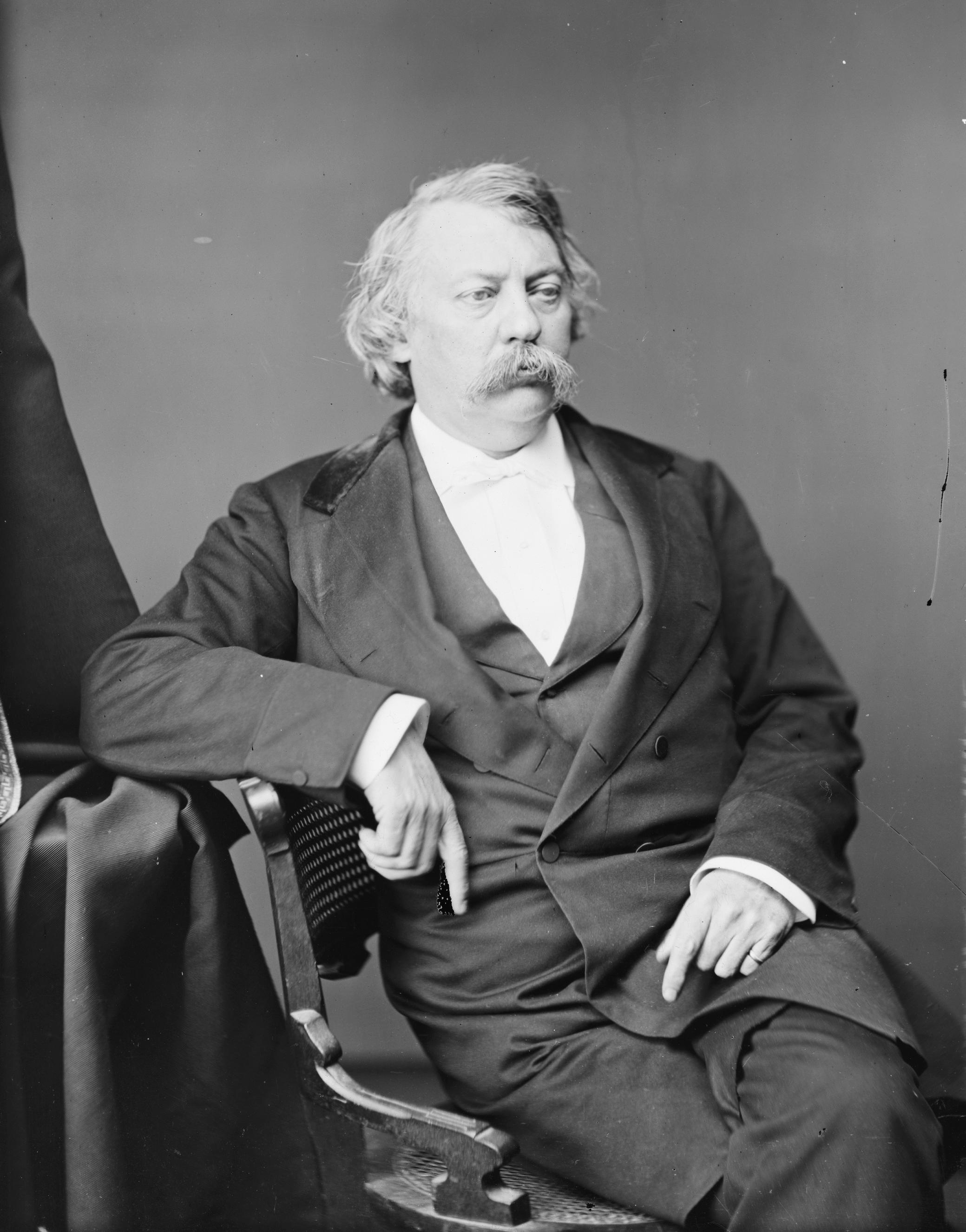 Matthew H. Carpenter. Library of Congress description: "Carpenter, Hon. Matt Hale of Wisc."